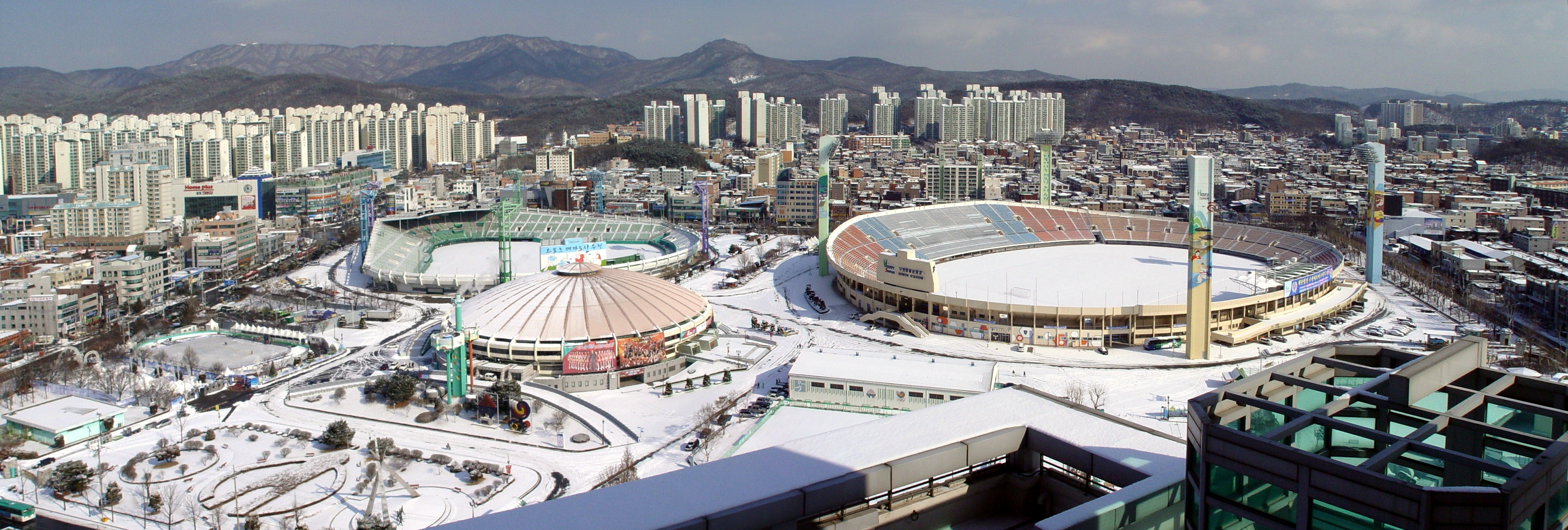 Suwon Civil Stadium seen from Royal Palace